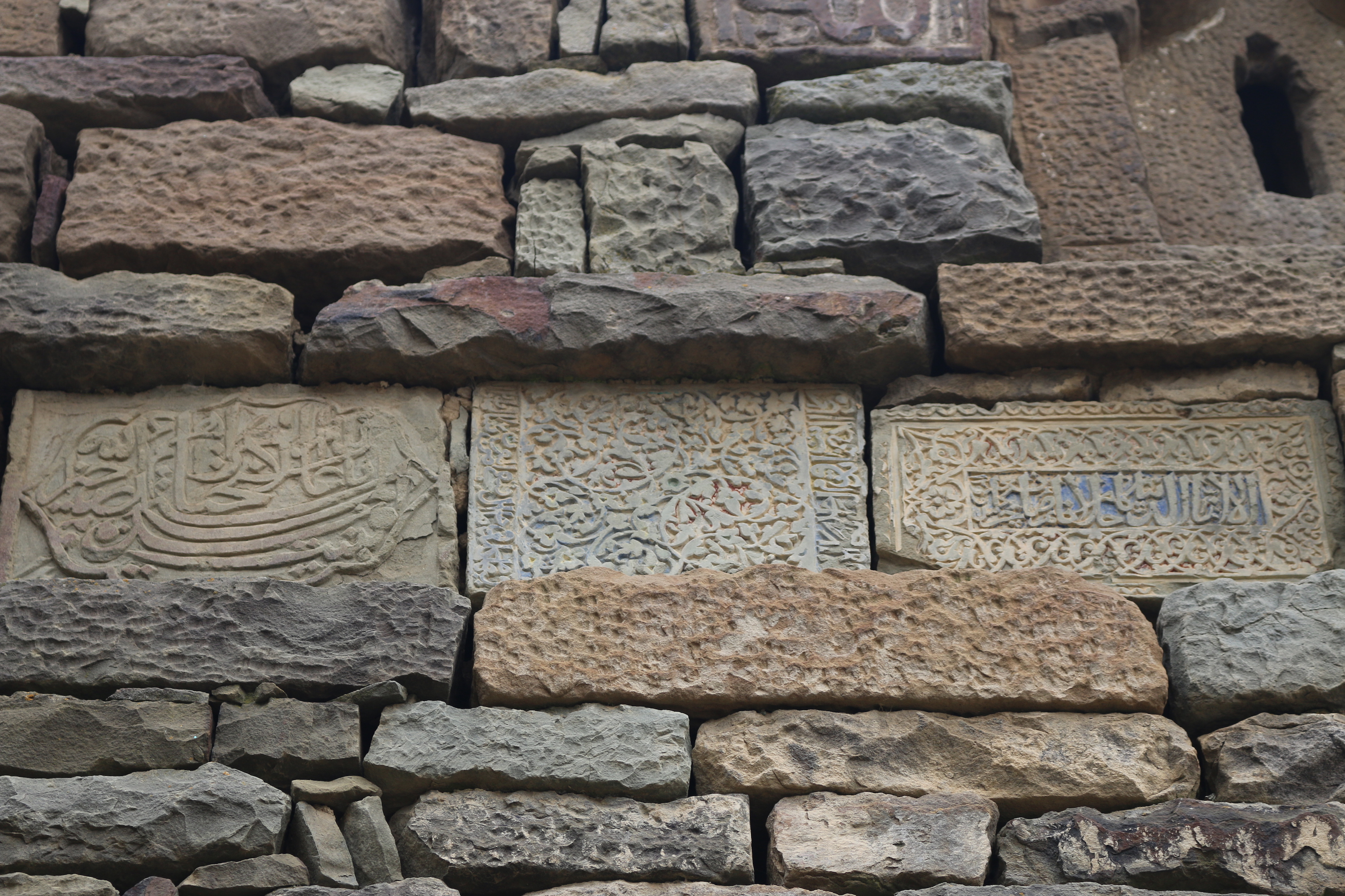 Kubachi / Zargaran village in Dagestan, 2020 - Photo: Persian Dutch Network